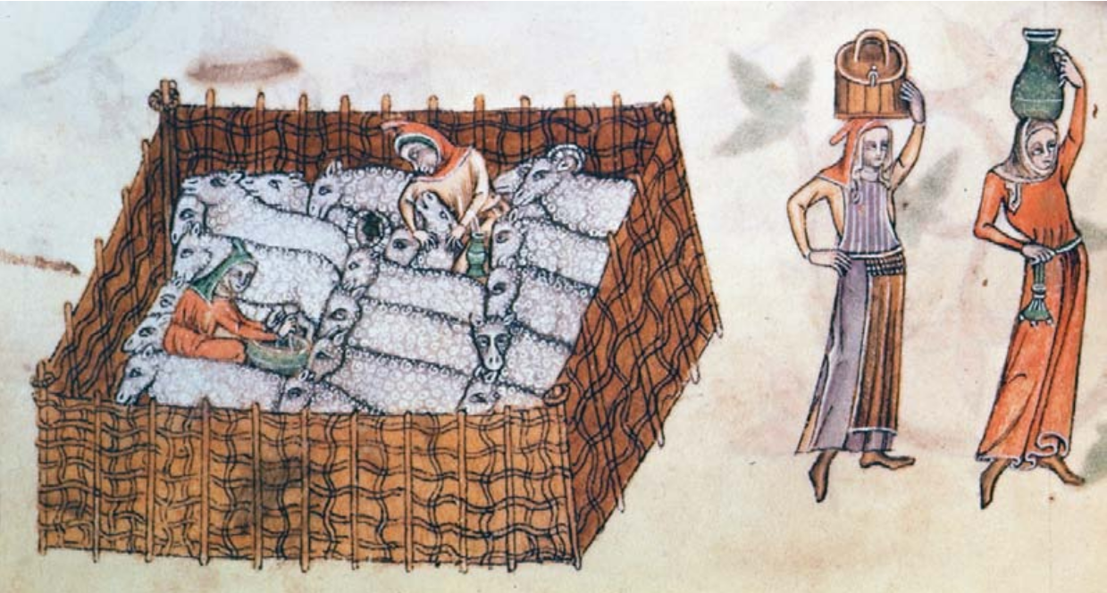 Medieval representation of a sheep pen